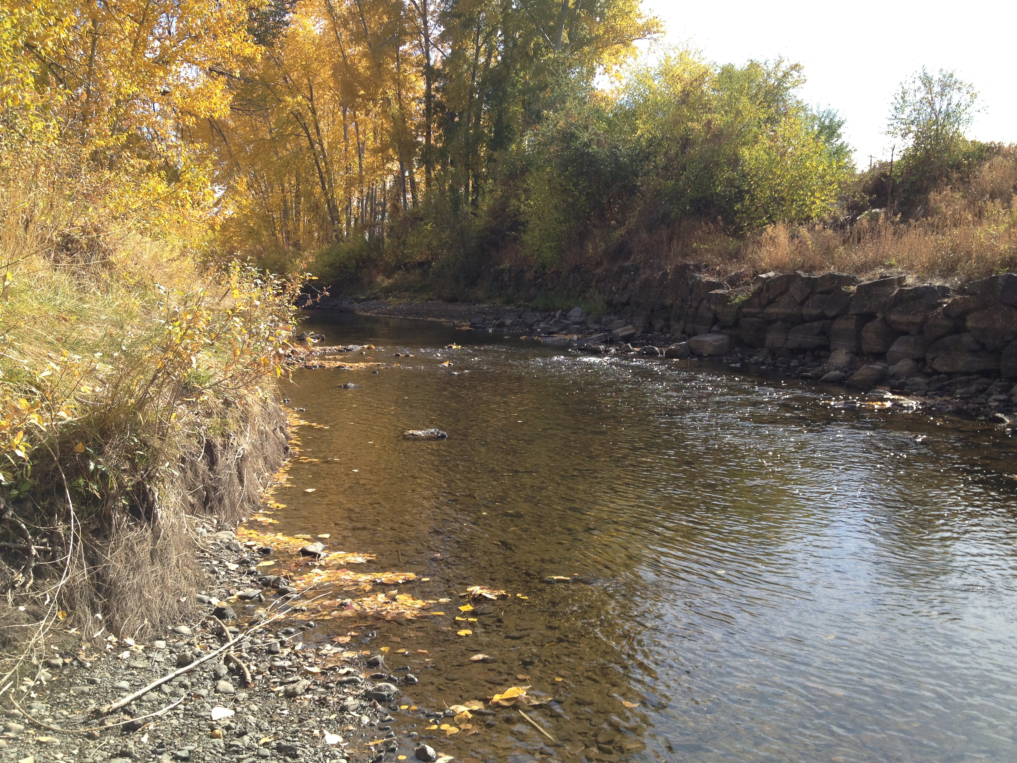 Upstream view of the Powder River at Baker City, Oregon, United States